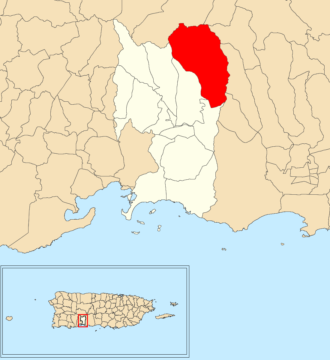 Rucio, Peñuelas, Puerto Rico locator map